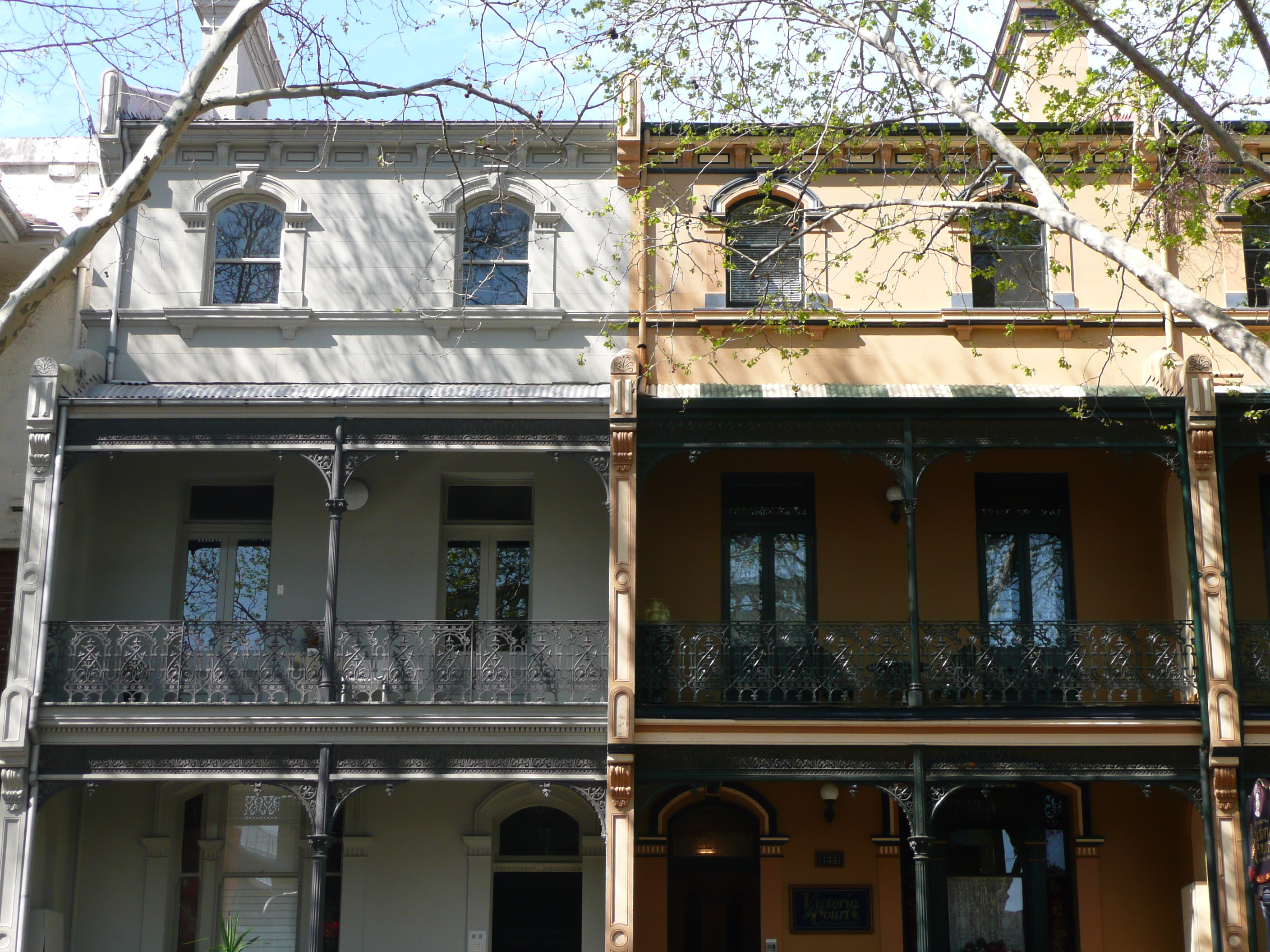 Terraced houses in Victoria Street, Potts Point, Sydney, New South Wales, Australia